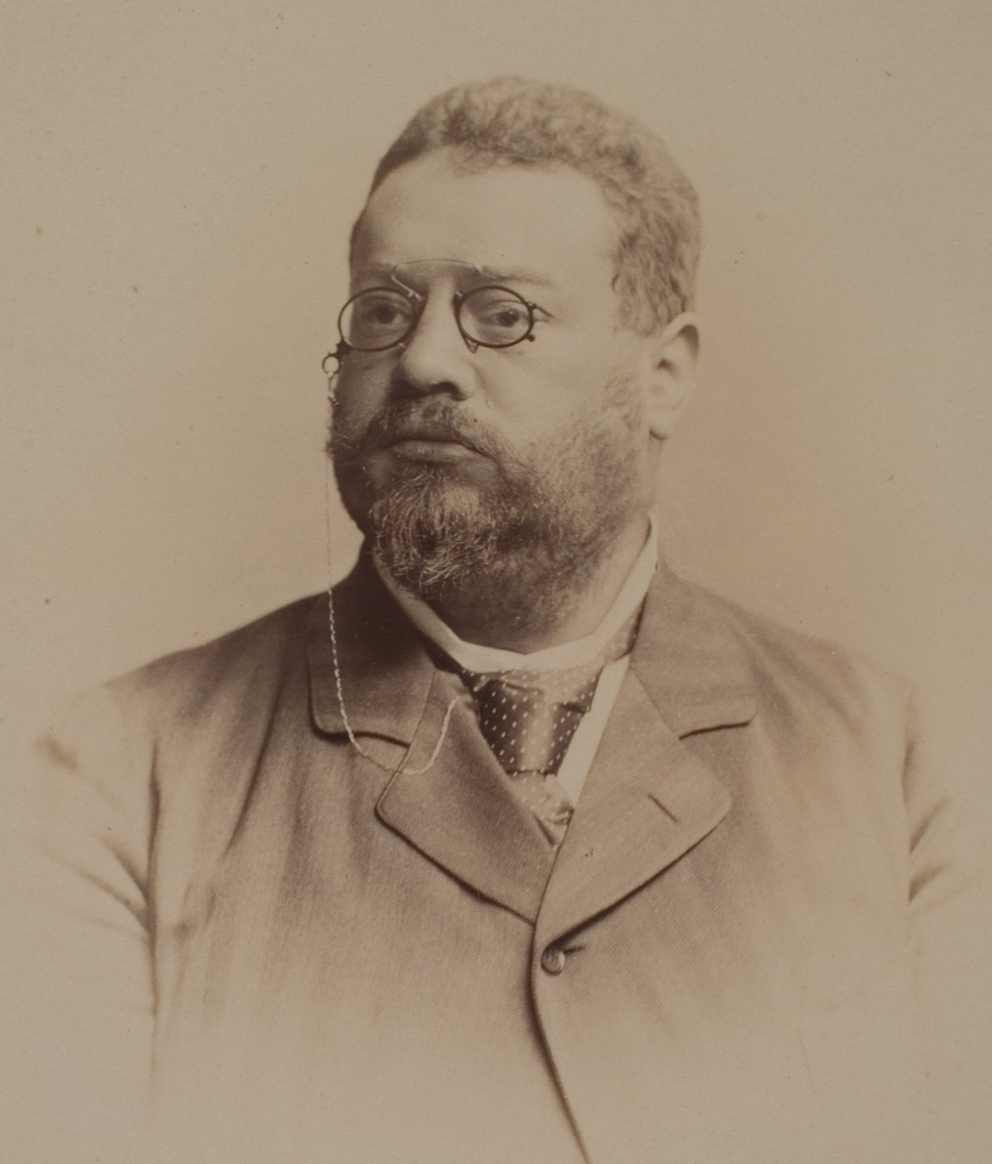 Portrait photography of Bernhard Hermann Kahle, Professor of Germanic Studies in Heidelberg